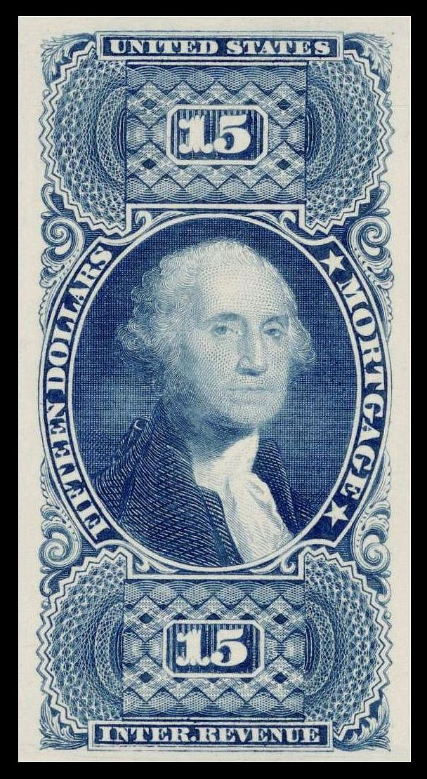 Image of Washington mortgage revenue 15c 1962 issue